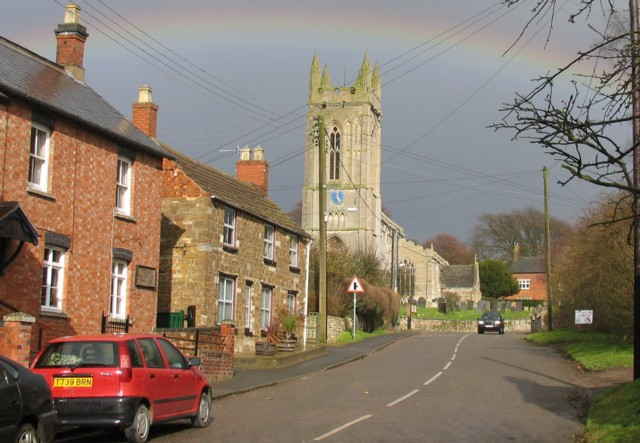 Rainbow over St Andrew's parish church, Whissendine, Rutland. The rainbow disappeared seconds after this picture was taken and there was no chance of another one without the telegraph pole.